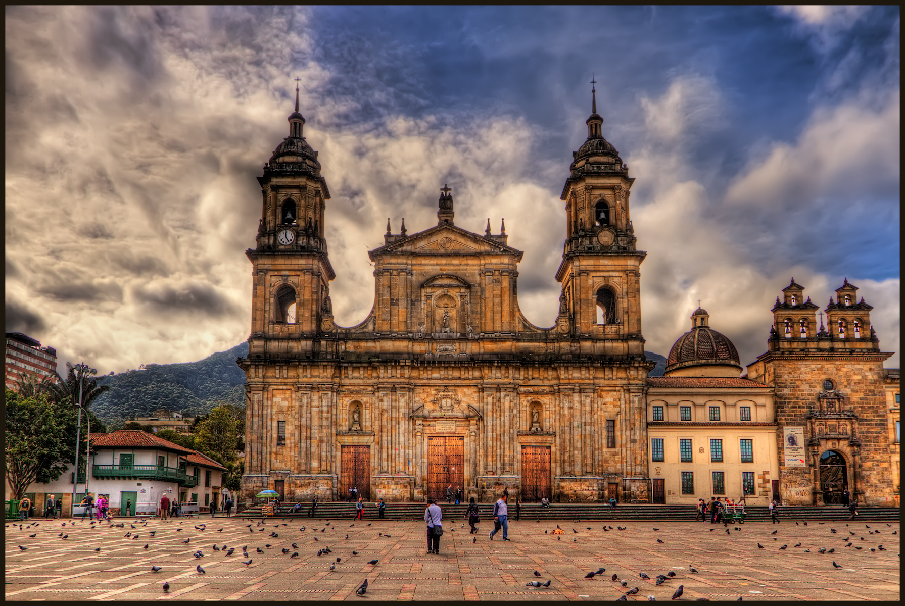 This is the main Cathedral in Bogota, Colombia, called Catedral Primada. It is in the East side of the Plaza de Bolivar. ISO 100, 15mm, f9, (1/800, 1/200, 1/50) handheld. HDR processing in Photomatix using Details Enhancer and Light mode. Imagenomics Noiseware, in PS Smart Sharpen, and Freaky Details. The warm colors came from Nik Color Efex Skylight and Indian Summer filters. I colored the sky blue using Nik Viveza 2 as Photomatix had produced the typical darkish desaturated blue. It often does this, note that the shirts of the people walking in the plaza are actually white.